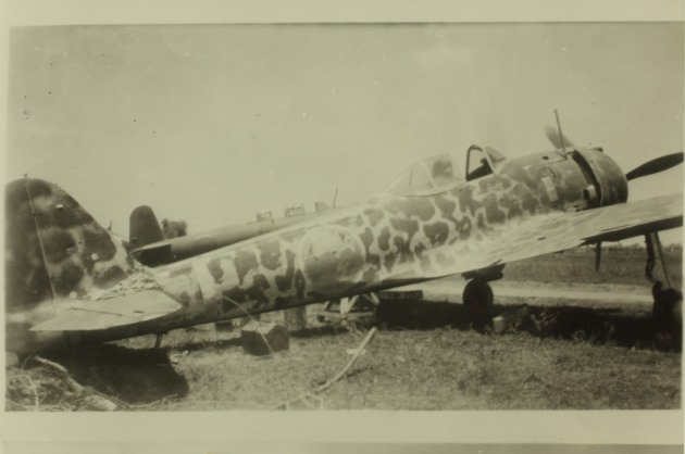 PictionID:6594908 - Catalog:01_00086159 - Title:Nakajima, Ki-43, Hayabusa 'Peregrine Falcon' Oscar 'Jim' Army Type 1 Fighter - Filename:01_00086159.TIF - Image from the Charles Daniels Photo Collection album "Seversky, Republic and P-47"----PLEASE TAG this image with any information you know about it, so that we can permanently store this data with the original image file in our Digital Asset Management System.----SOURCE INSTITUTION: San Diego Air and Space Museum Archive